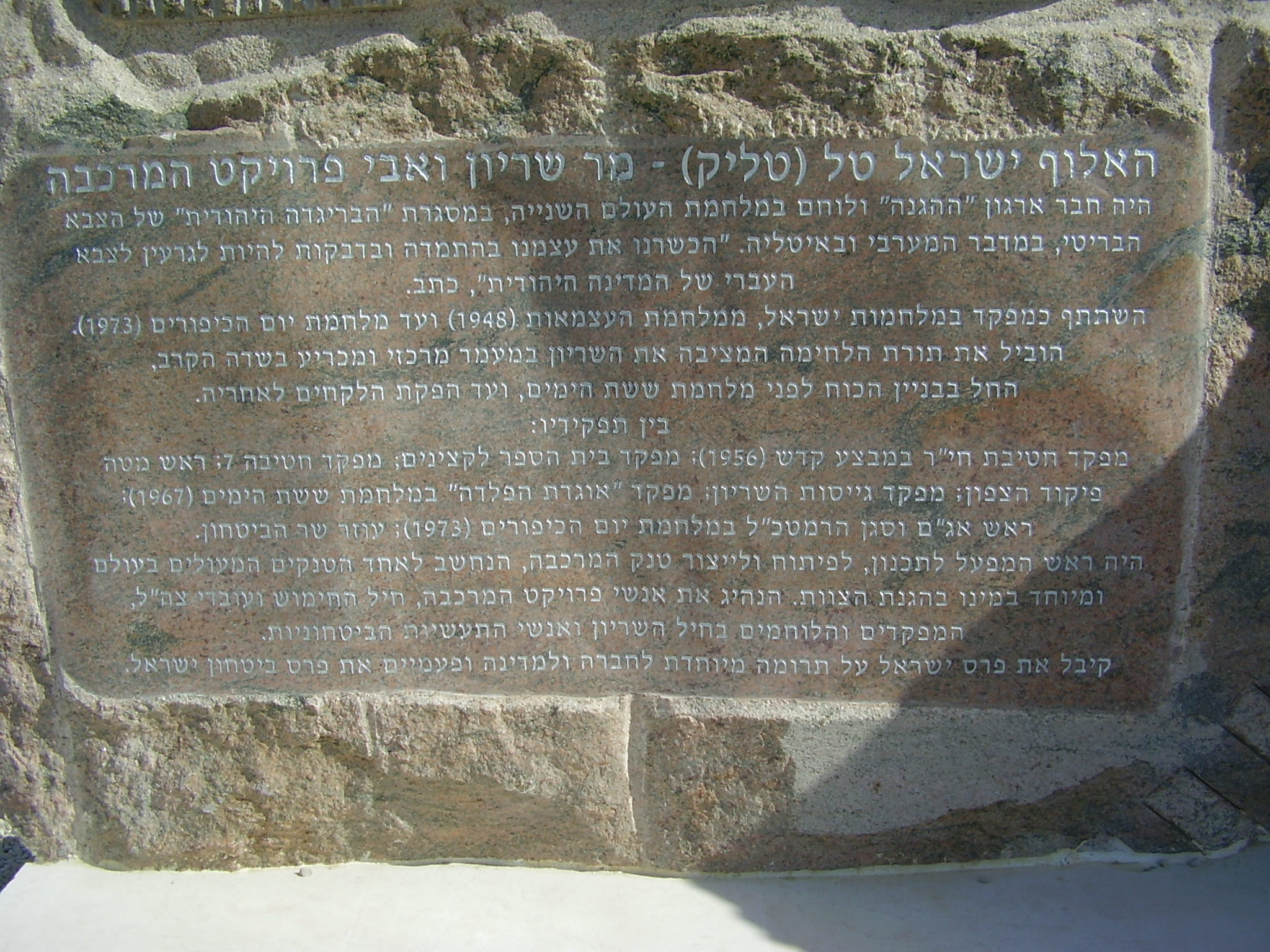 Major General Tal Memorial in Latrun, Israel